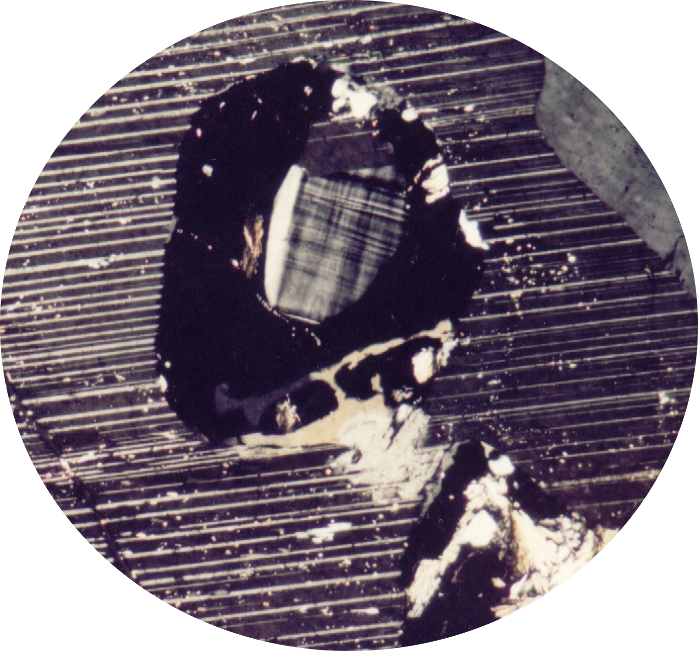 Polarizing microscope picture of thin section taken in crossed polarized light. A three generation inclusion:Microcline included in magnetit and the magnetite included in plagioclase. At the right side we see a gray nephelin crystal. Rock:Nepheline syenite gneiss Local:Rio de Janeiro, Brazil Author:Eurico Zimbres Free for all use Date: 1990